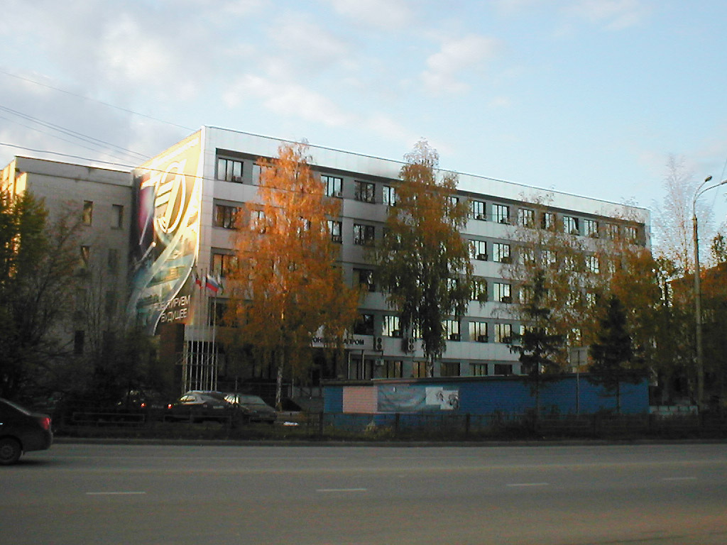 GiproNIIaviaprom design enterprise on Motorbuilders square in Kazan